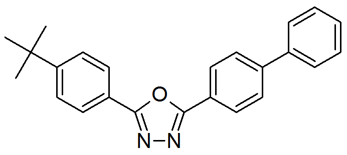 The molecular structure of butyl PBD, an organic scintillator